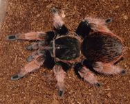 my Brachypelma Klaasi inside the tank